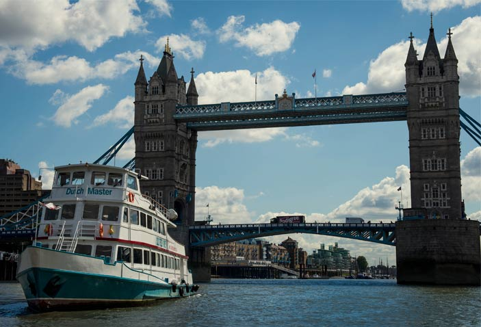 Dutch Master boat passing Tower Bridge